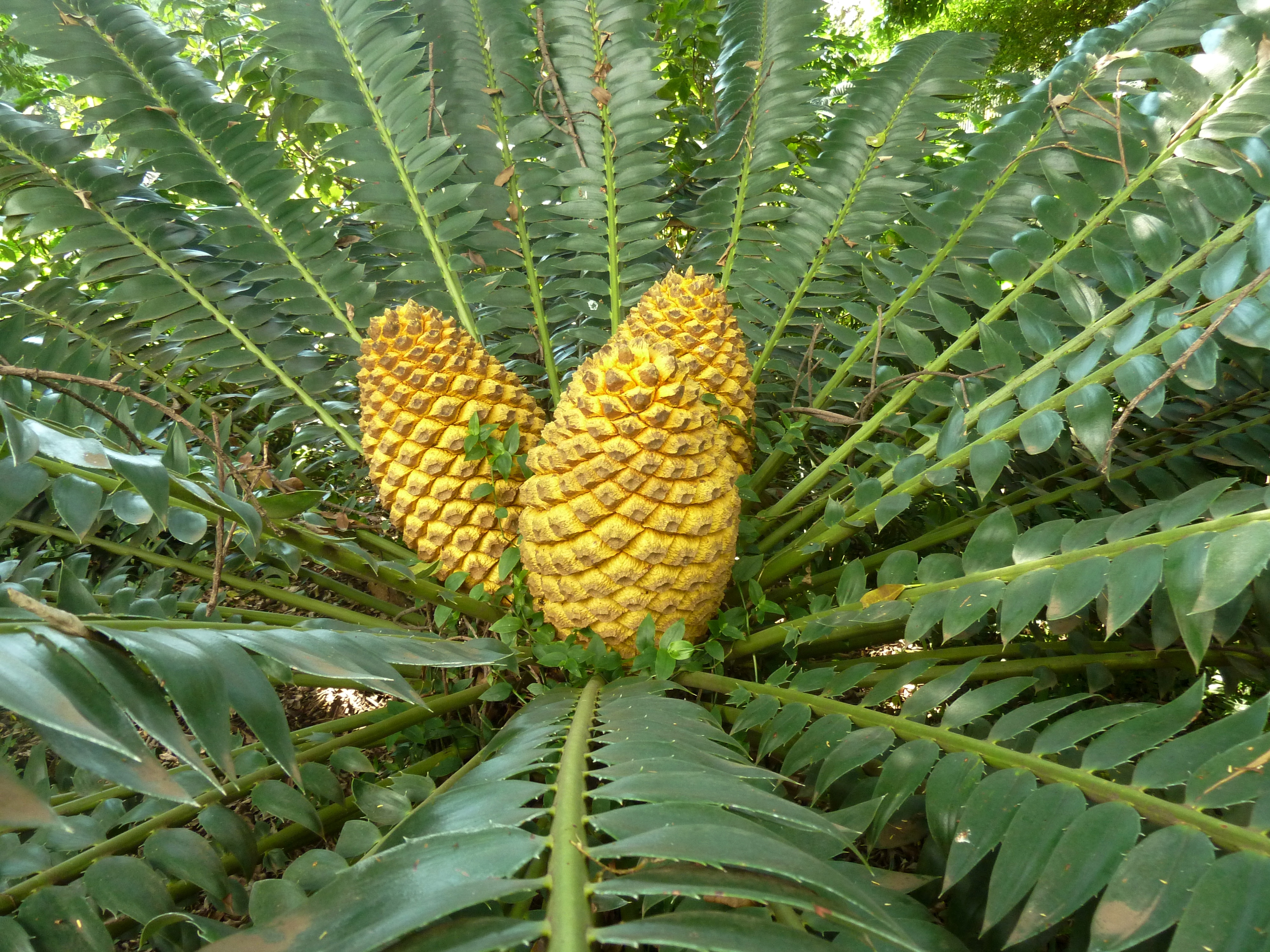 Cones of a female Modjadji cycad in Manie van der Schijff Botanical Garden at the University of Pretoria